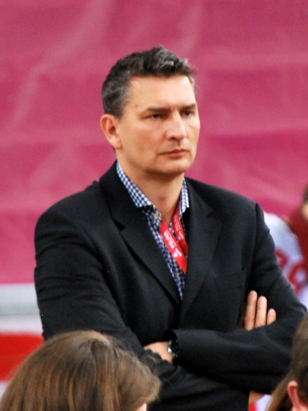 FIVB World Championship European Qualification Women Łódź January 2014. Witold Roman - former volleyball player and coach from Poland